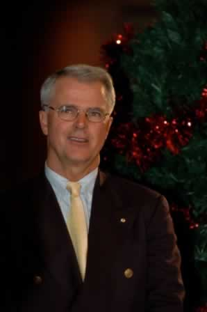 I took this photo at the Carbine Club's annual rugby lunch, held at the Rugby Club in Sydney on 16 December, 2005. This photo, along with other photos I took, can be seen on the website